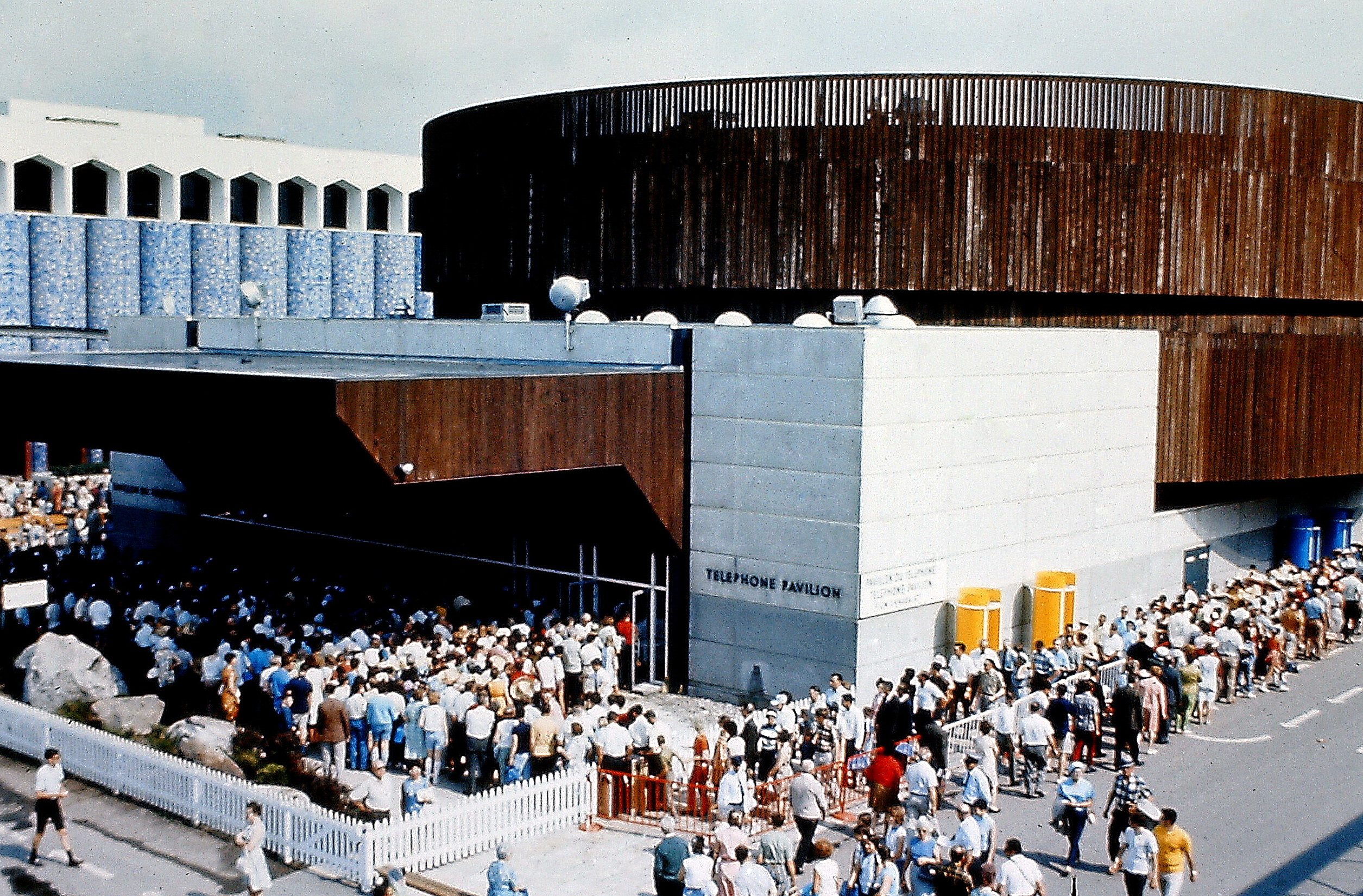 Bell Telephone Pavilion at Universal Exposition of 1967, Montreal, Quebec, Canada